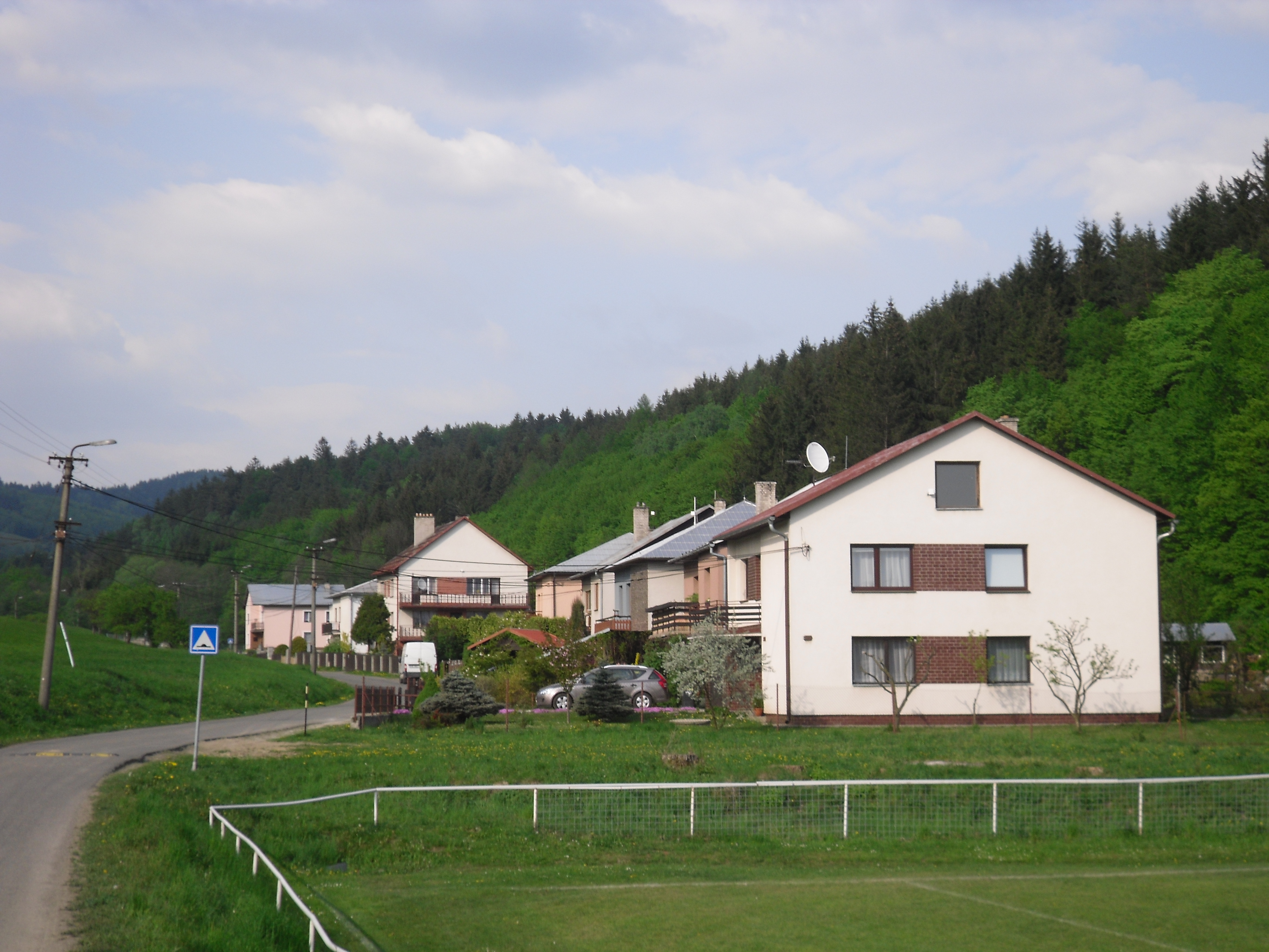 Trnava (Zlín District), Czech Republic - a street near the football field